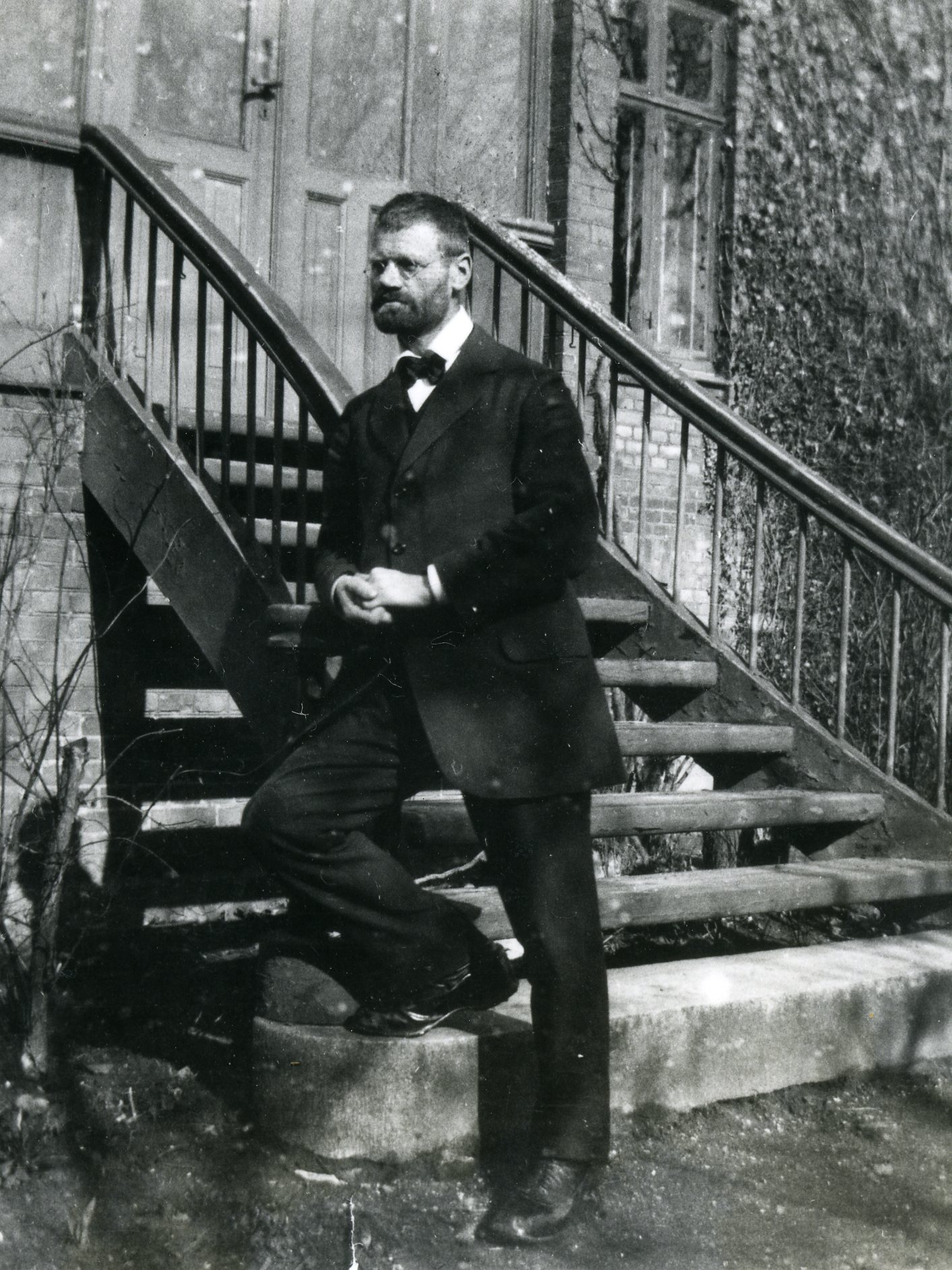 Axel Olrik (1864-1917)